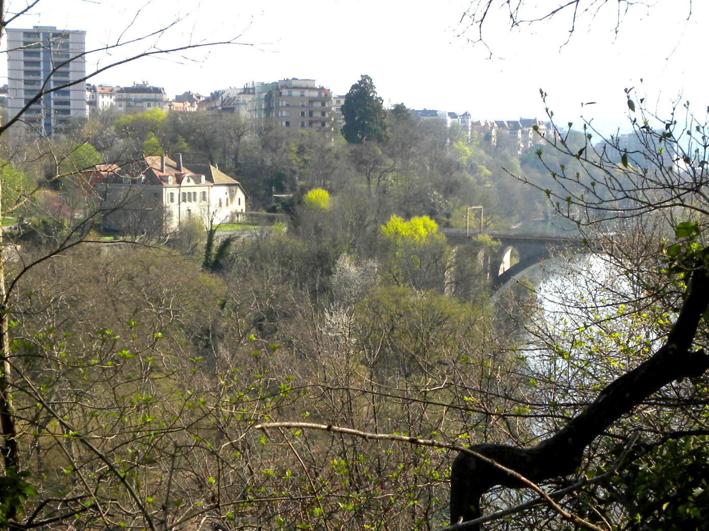 A view of Saint-Jean, a district of Geneva, Switzerland, pictured from the south-west